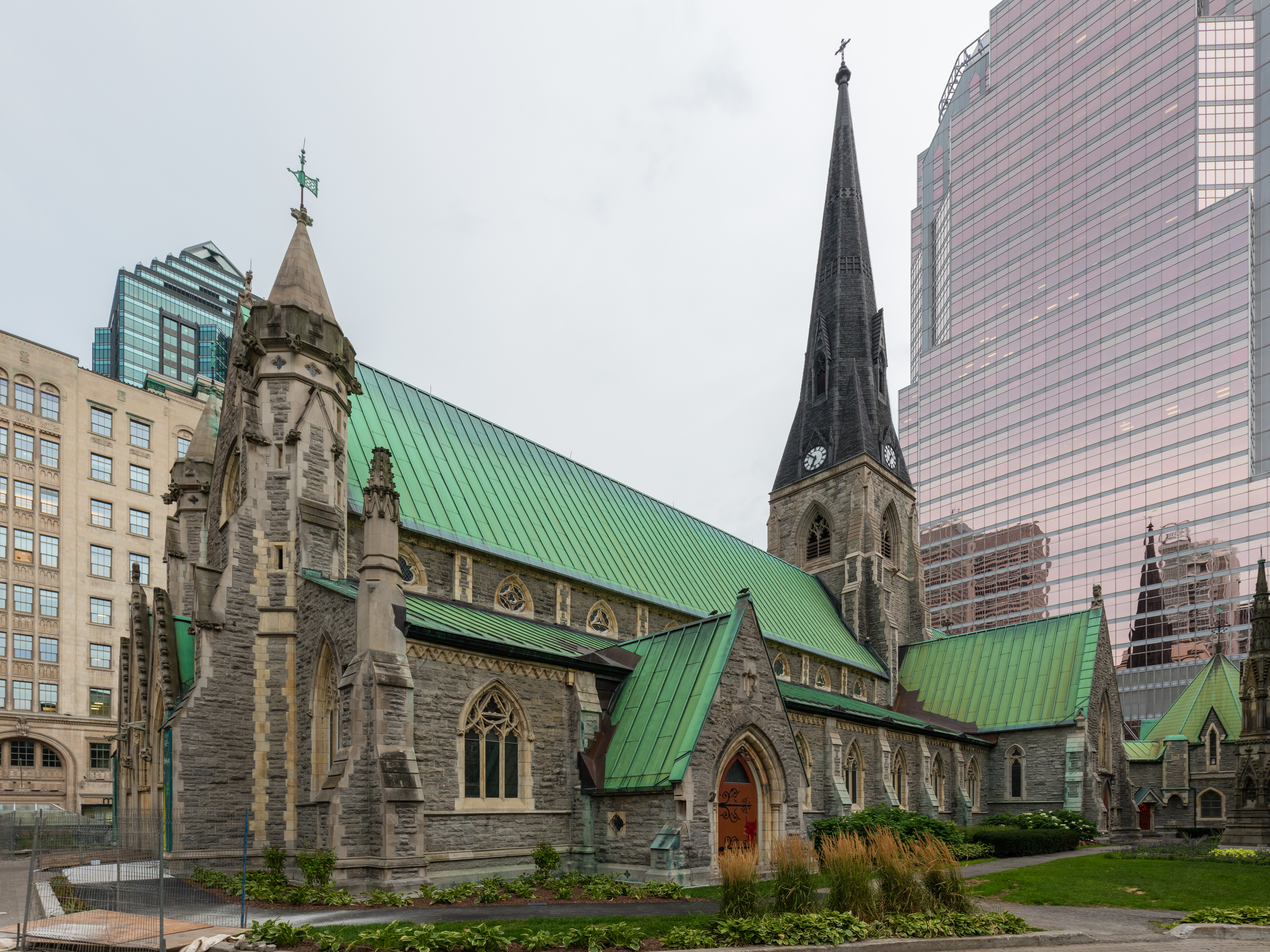 Christ Church Cathedral, Montreal, Canada